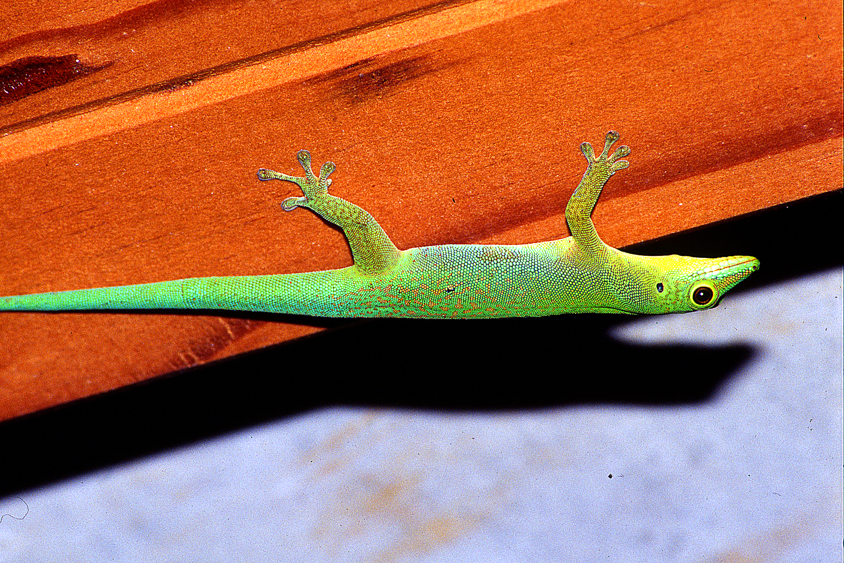 Seychelles Day Gecko, Phelsuma astriata